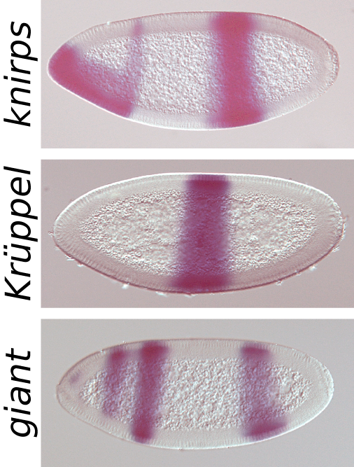 In situ hybridisation against mRNA of the gap genes knirps, Krüppel and giant in the Drosophila melanogaster early embryo (at cellularization)